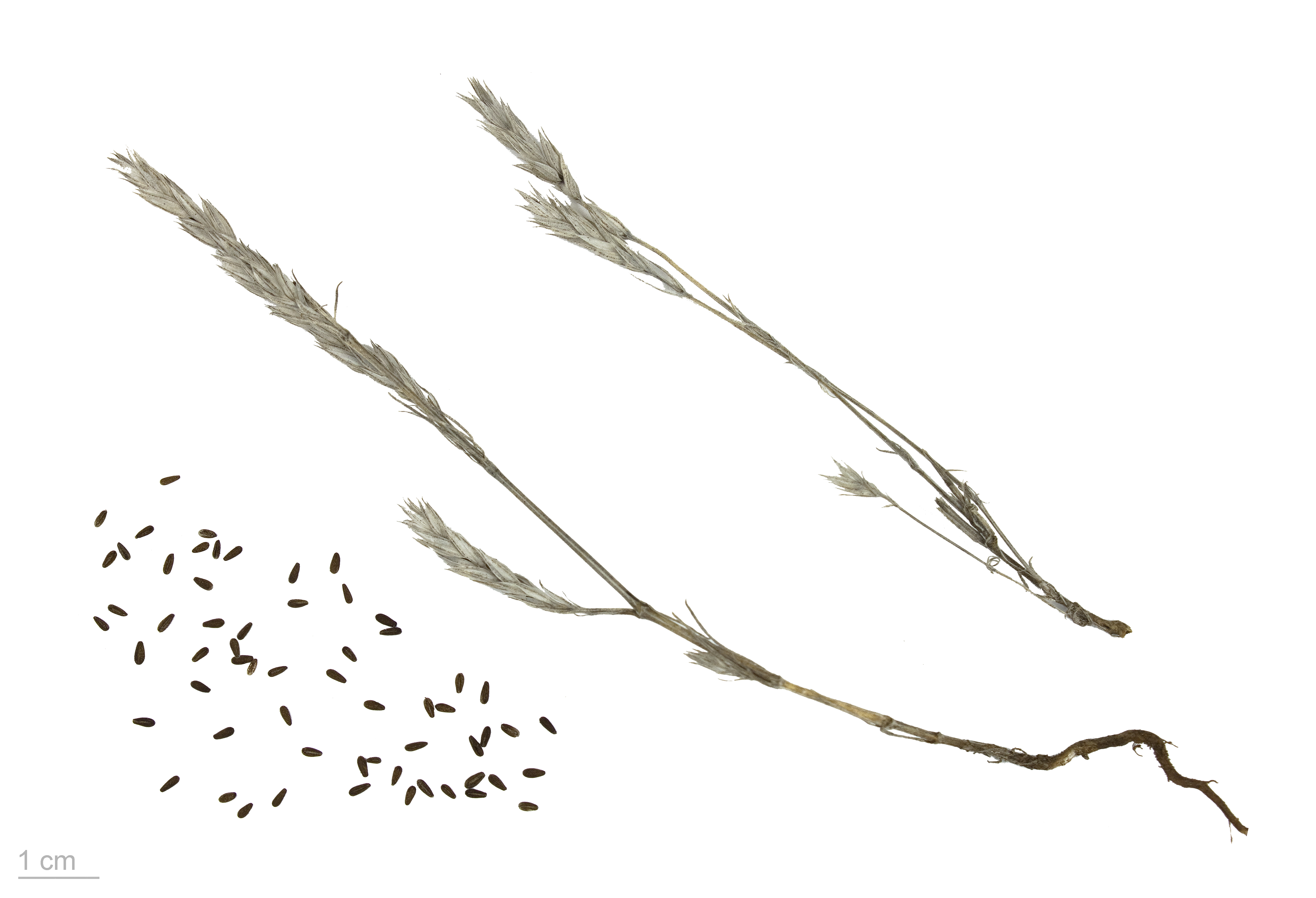 Crucianella angustifolia , fruits and seeds